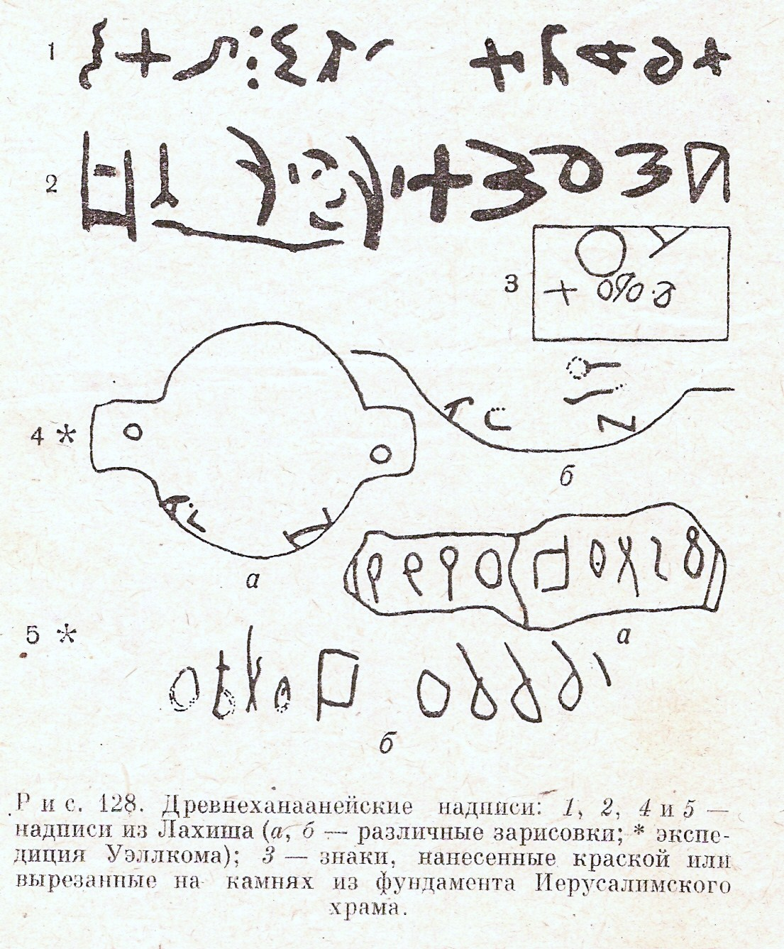 Images of proto-canaan (not sinai) writing